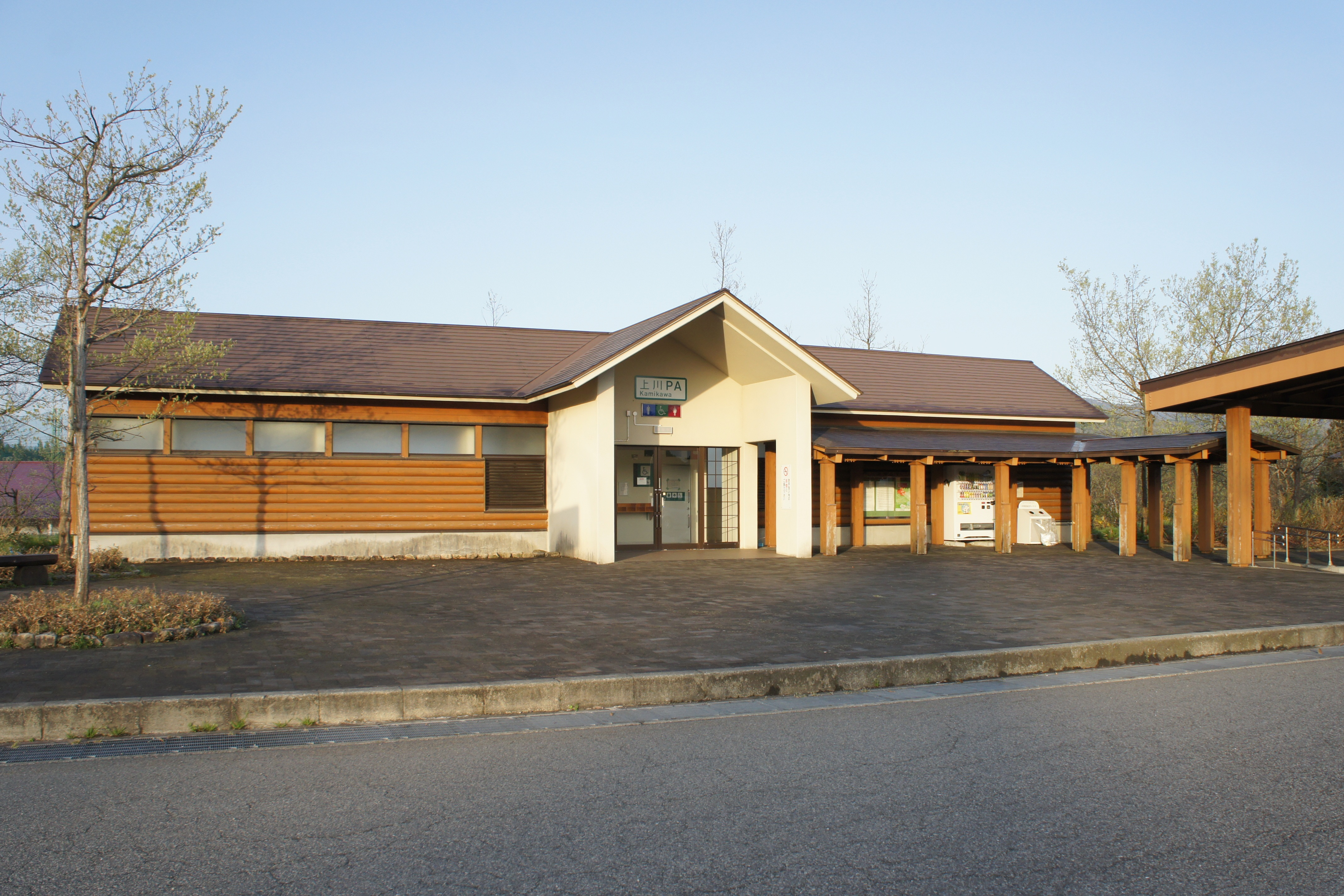 Kamikawa Parking Area, Aga-machi, Niigata, Japan